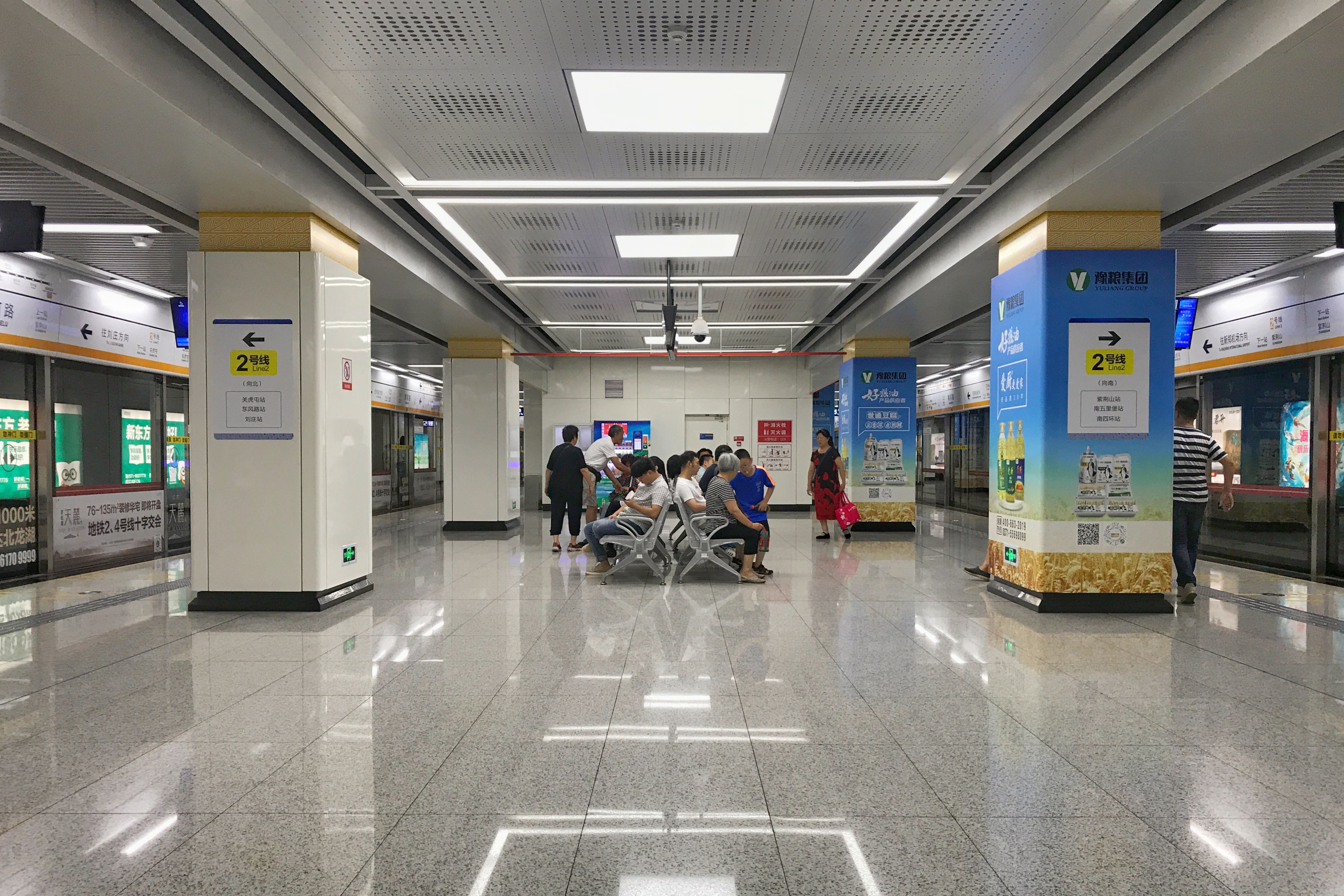 Platform of Huanghelu Station of Zhengzhou Metro